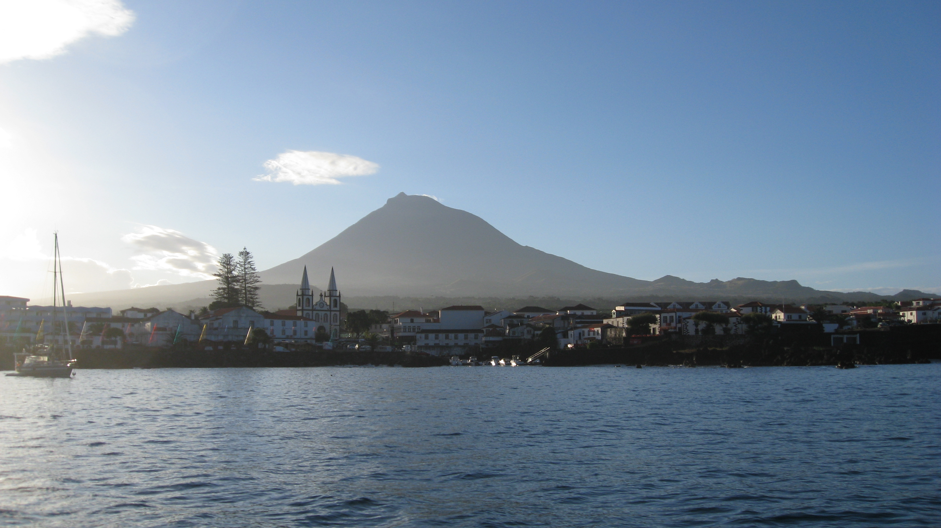 Leaving Pico island to Horta, Faial island